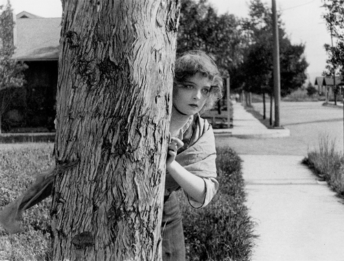 Lillian Gish in The Mothering Heart (1913).